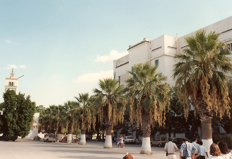 Bardo Museum seen from the parking